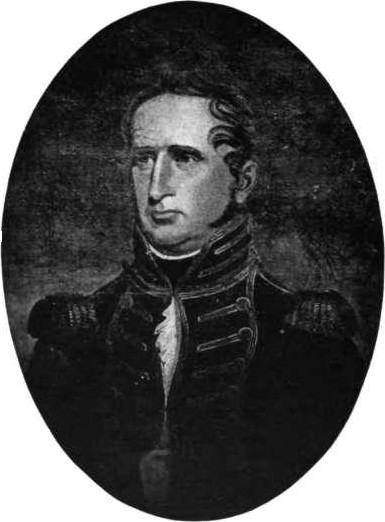 Commodore Arthur Sinclair, USN.